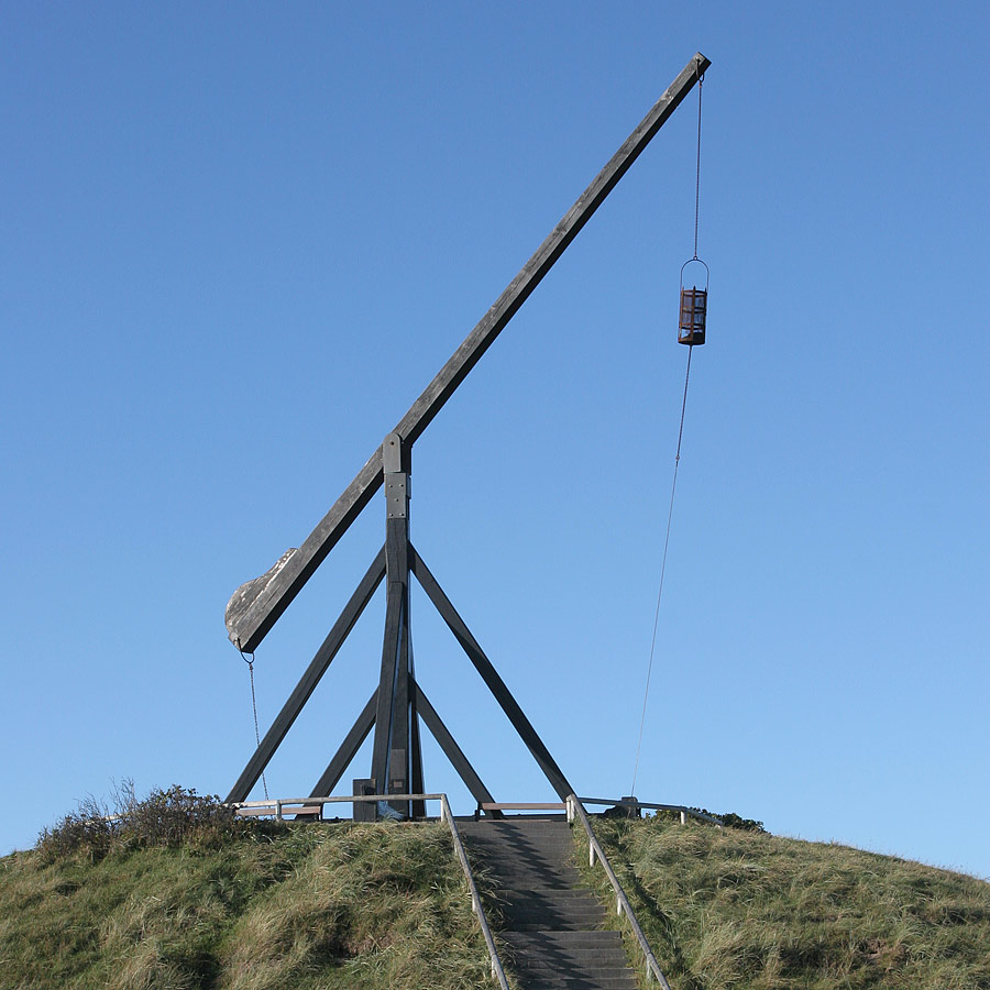 Reconstruction of an old bascule light (Danish: vippefyr) at Skagen, Denmark.